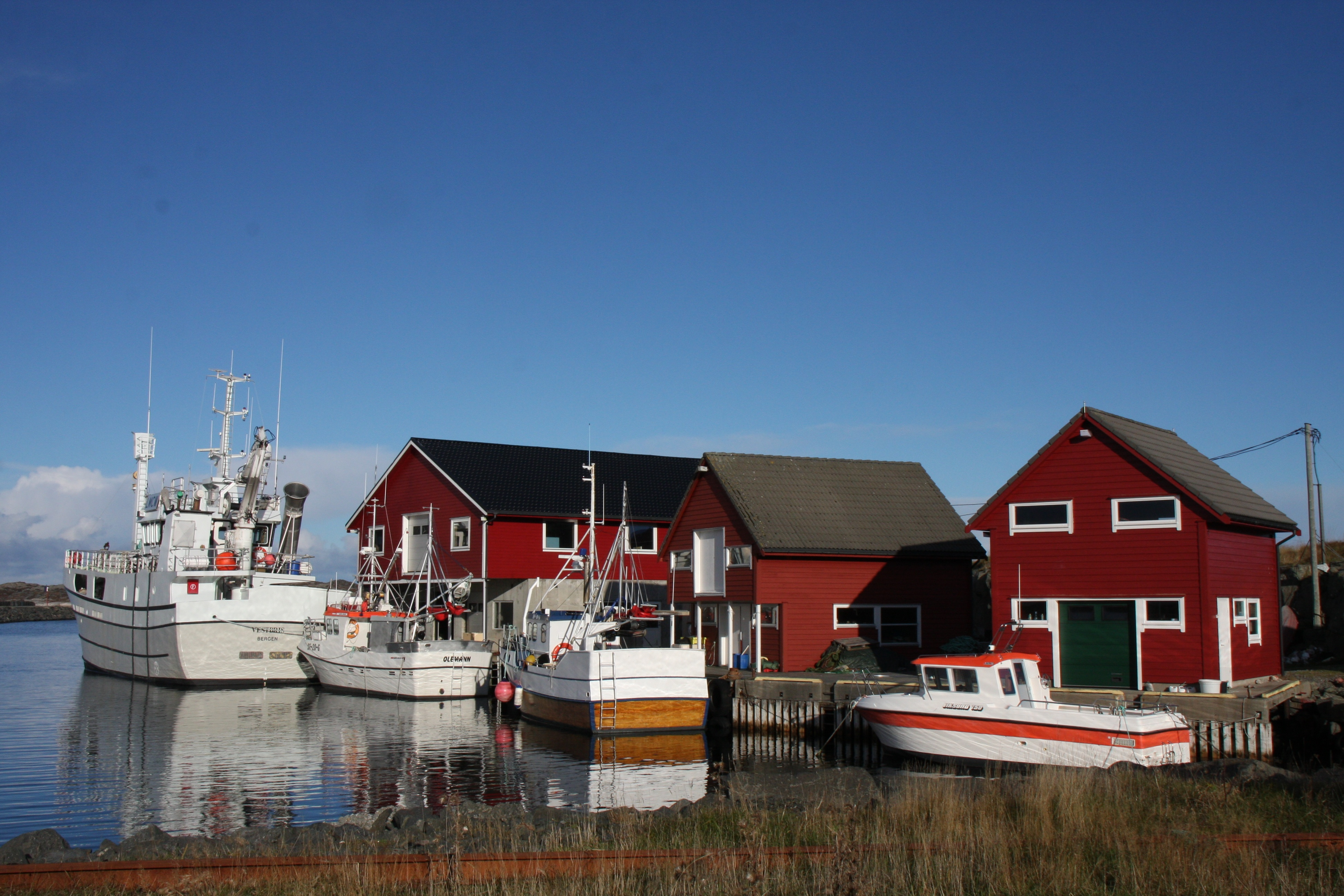 Gulen municipality, Norway.